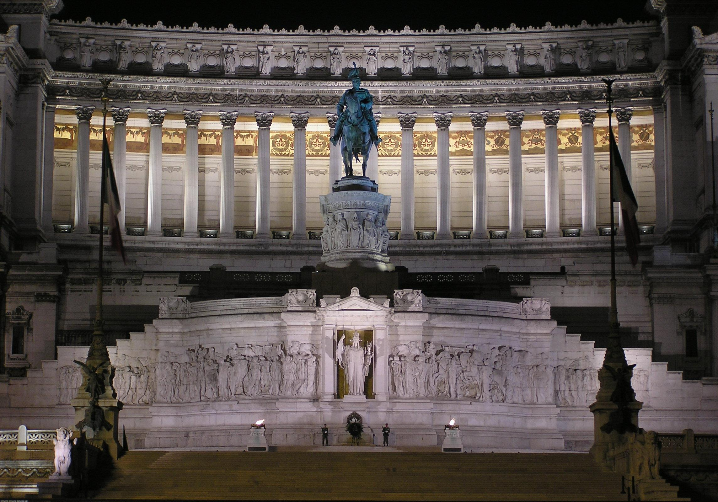 Monument to the Unknown Soldier, with perpetual flame, with statue of the goddess Rome and guard of honor. At the Altare della Patria in the complex of Vittoriano in Rome, Italy